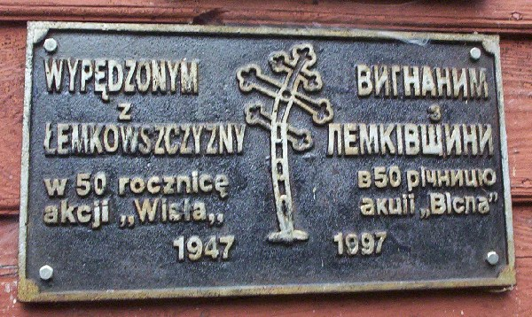 Tablet on a chapel under holy mountain Jawor - there are many plates like this one on churches in Beskid Niski, Poland.